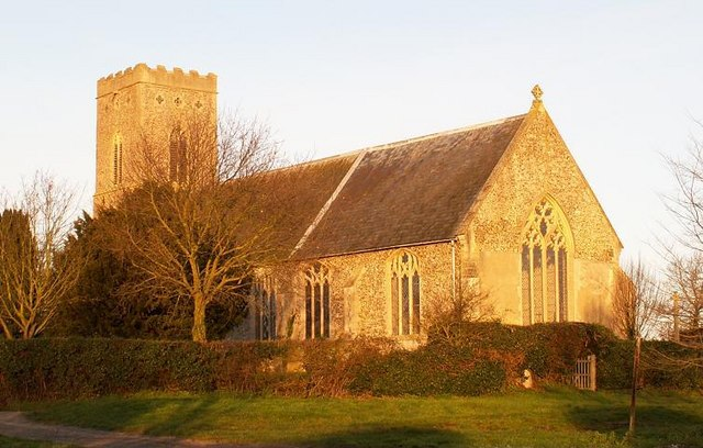 Parish church of St Mary of Pity, Burgate, Suffolk, seen from the southeast